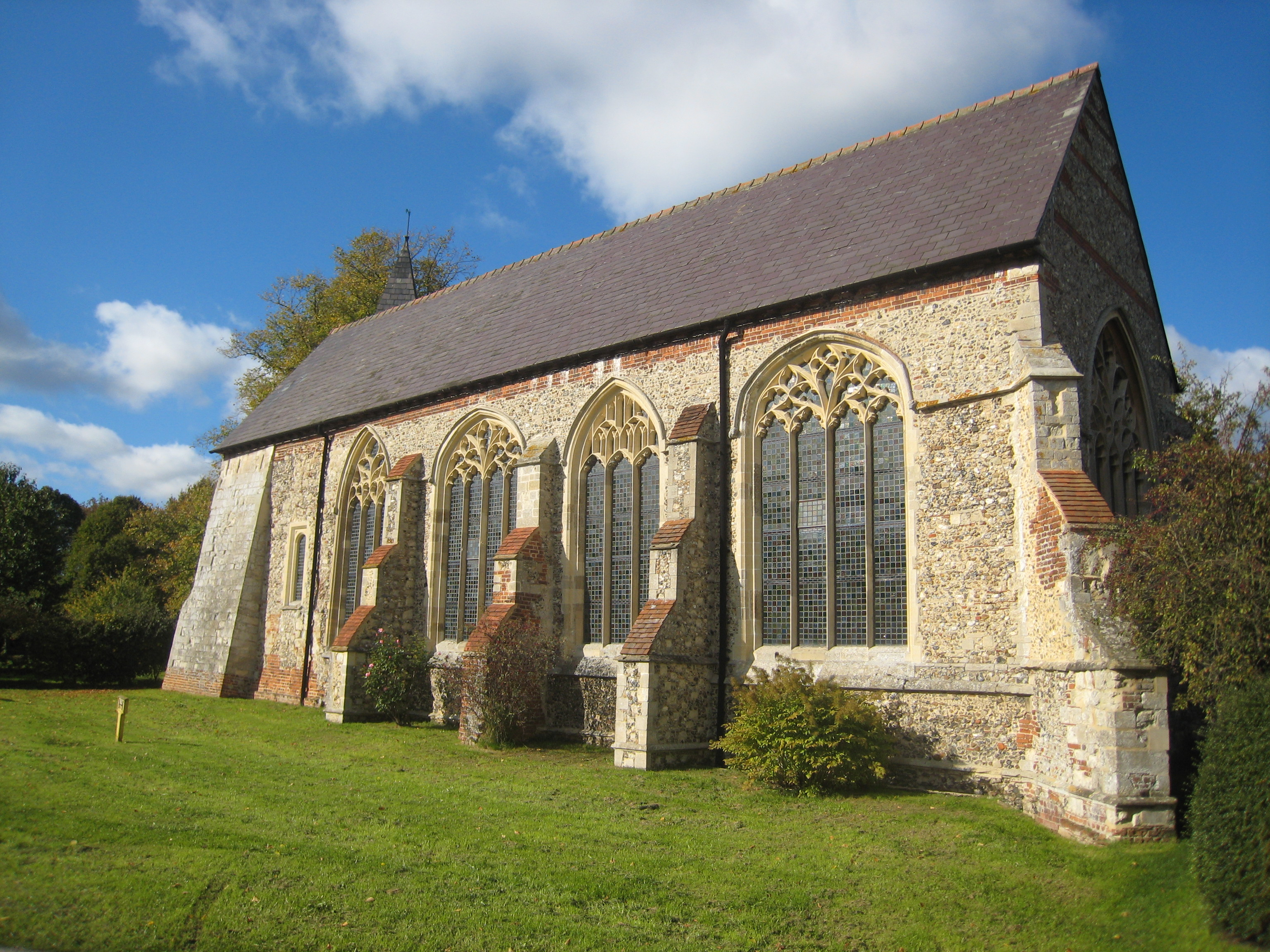 Parish church of St Mary the Virgin, Little Dunmow, Essex, seen from the southeast